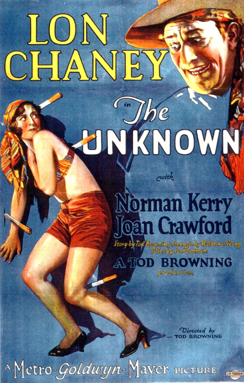 Poster for the 1927 film The Unknown. There are no copyright marks on the poster. At bottom left is Country of origin & production USA. At bottom right is the logo of the J. H. Tooker Print Co. (later known as Tooker Litho) "Made by J. H. Tooker Print Co. New York USA".